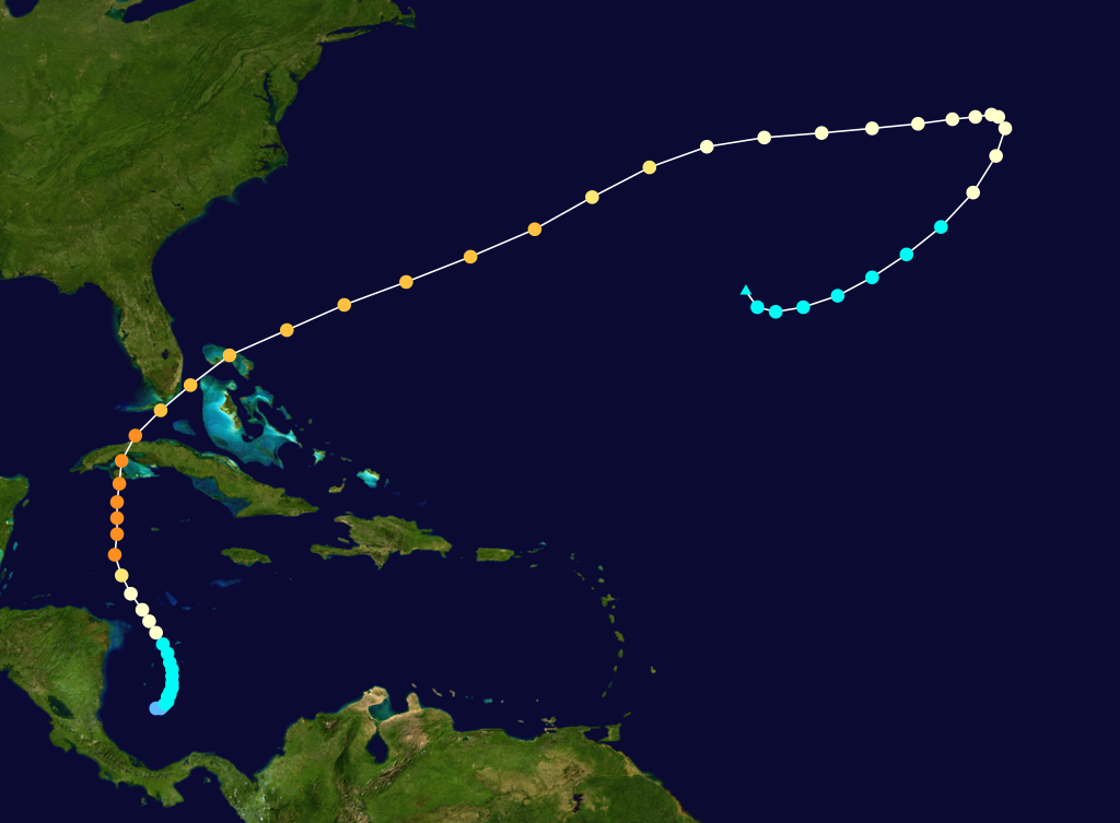 1926 Havana-Bermuda hurricane track. Uses the color scheme from the Saffir-Simpson Hurricane Scale.